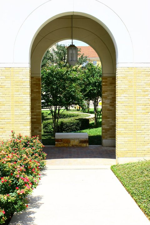 TCU Corridors